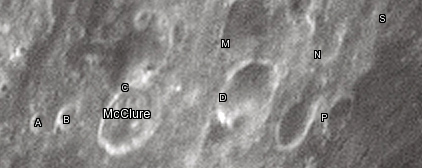 McClure lunar crater as seen from Earth with satellite craters labeled